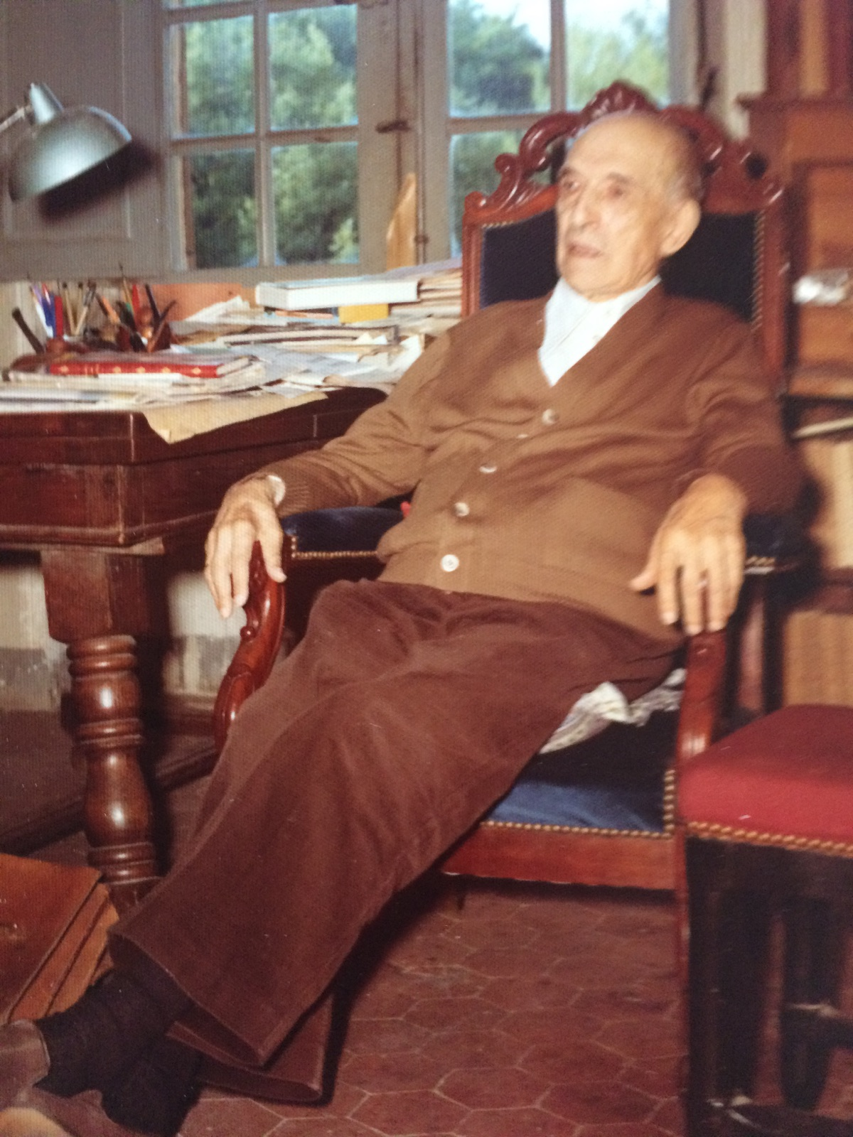 French poet and librarian from Provence